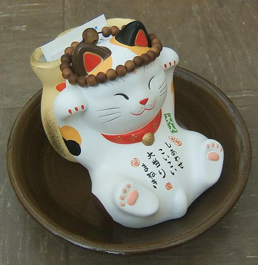 Maneki-neko with four legs up, there is wrote on its belly : "しあわせ こいこい 大当り まねき。" (shiawase koikoi oatari maneki), litteraly meaning: "Fortune, invite invite, great success, come on".